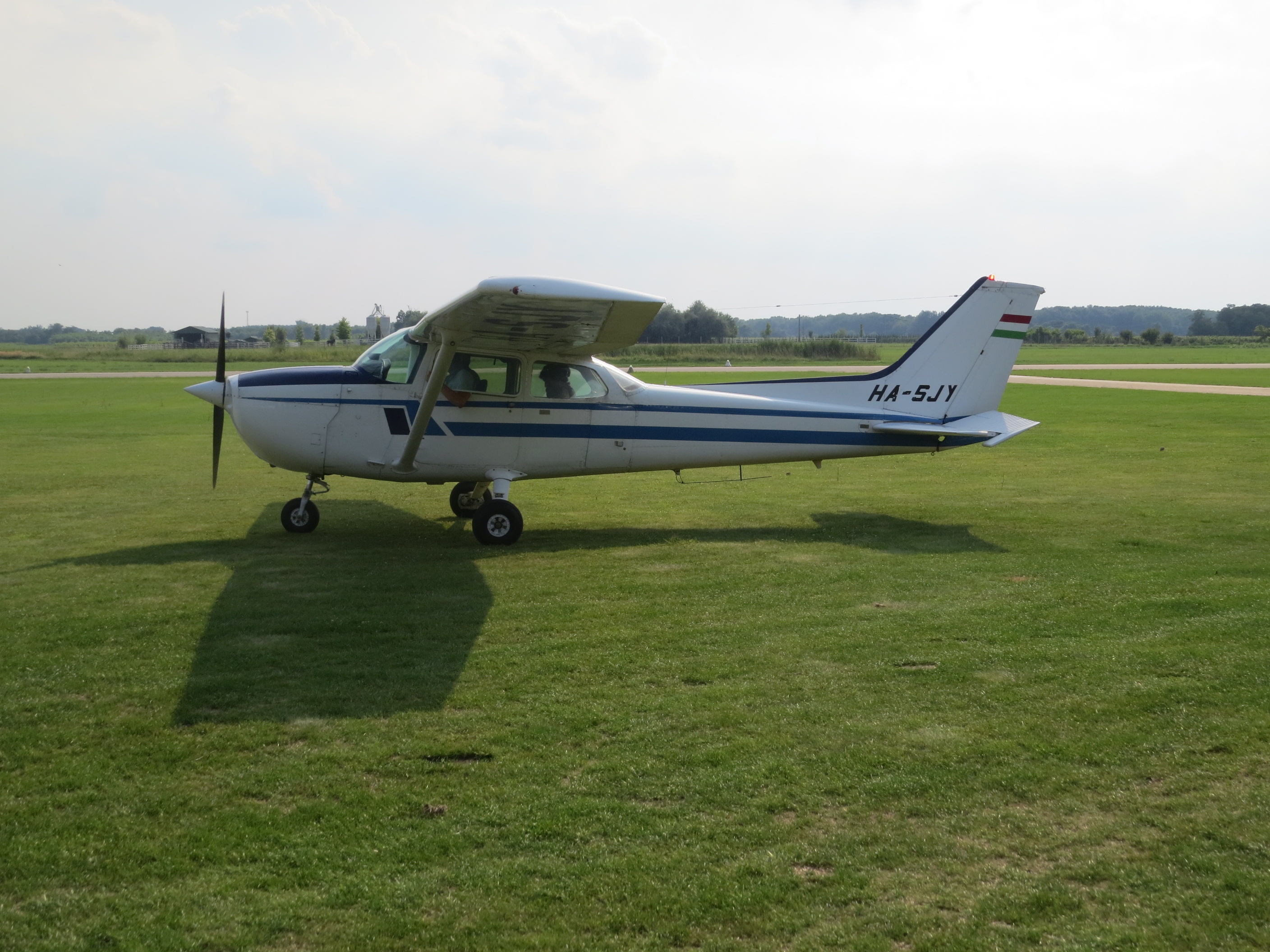 HA-SJY in Jakabszállás